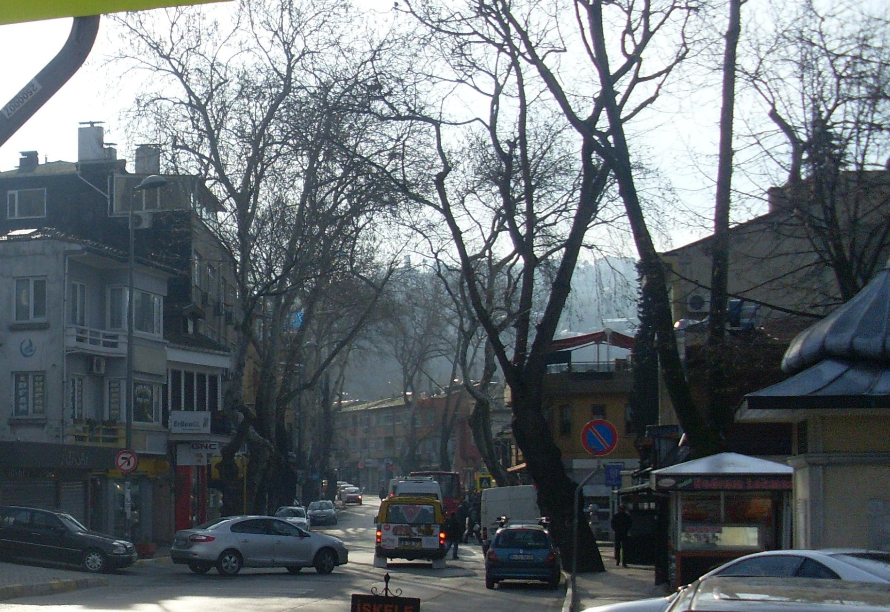 İstanbul - Çengelköy, Üsküdar r2 - feb 2013